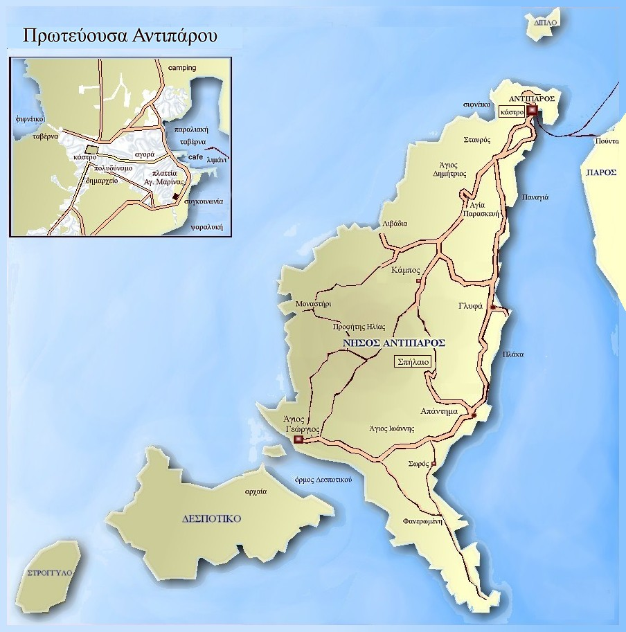 a map of Antiparos